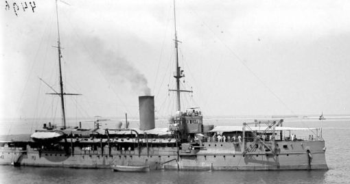 Hr.Ms. "Hertog Hendrik", Makassar. (Koningen Regentes class)